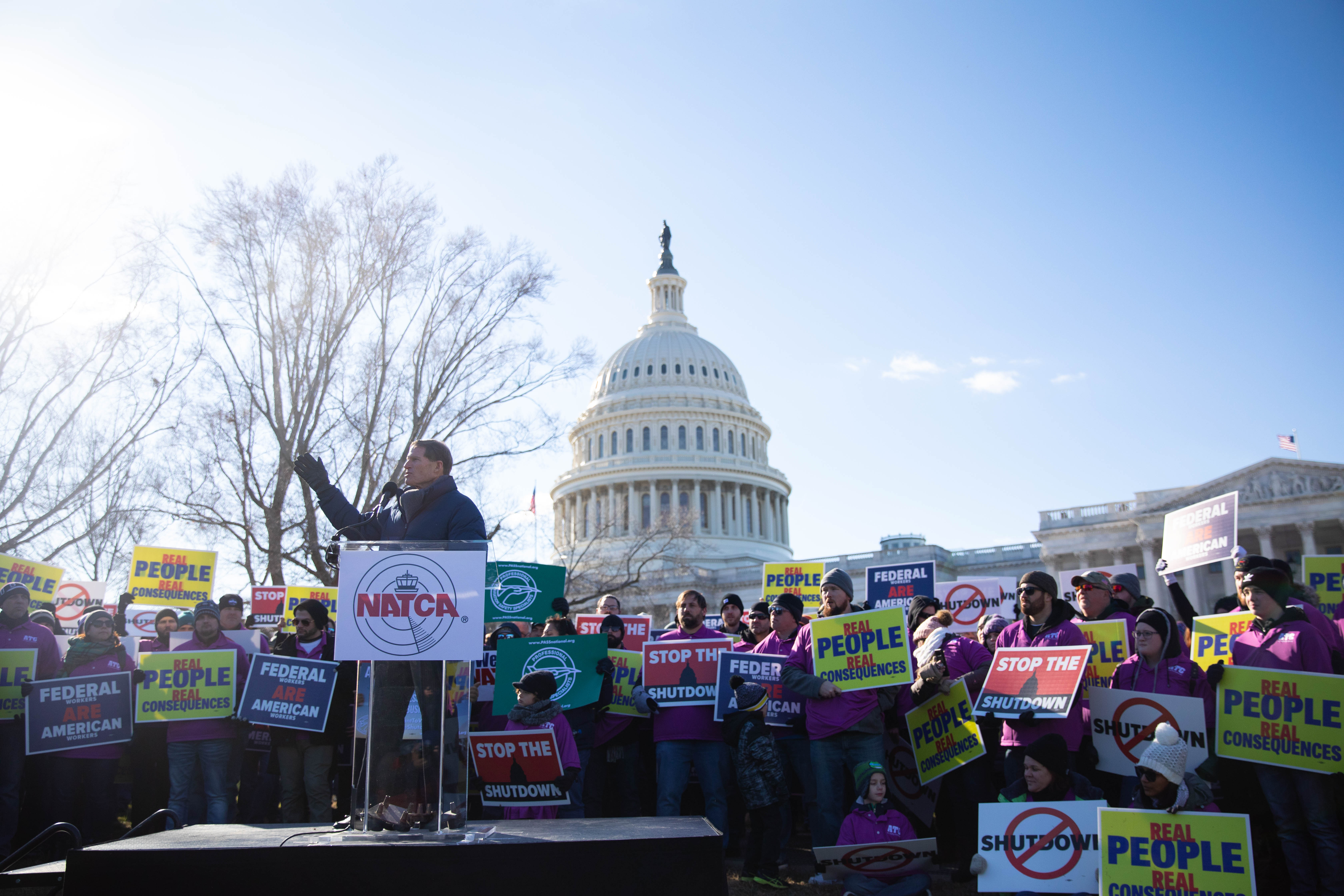 ATC_Rally_011019 (23 of 33)